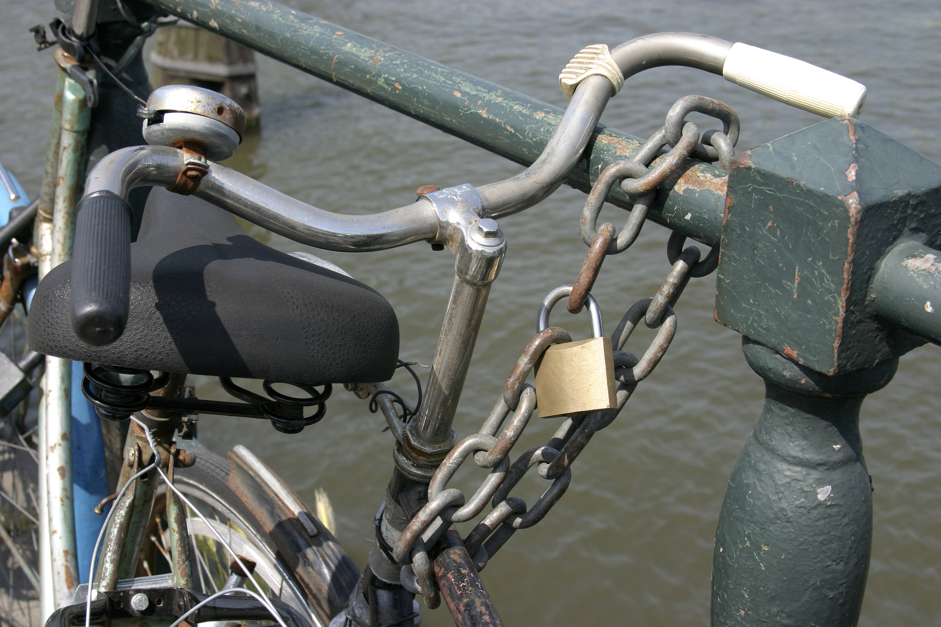 Bicycle lock